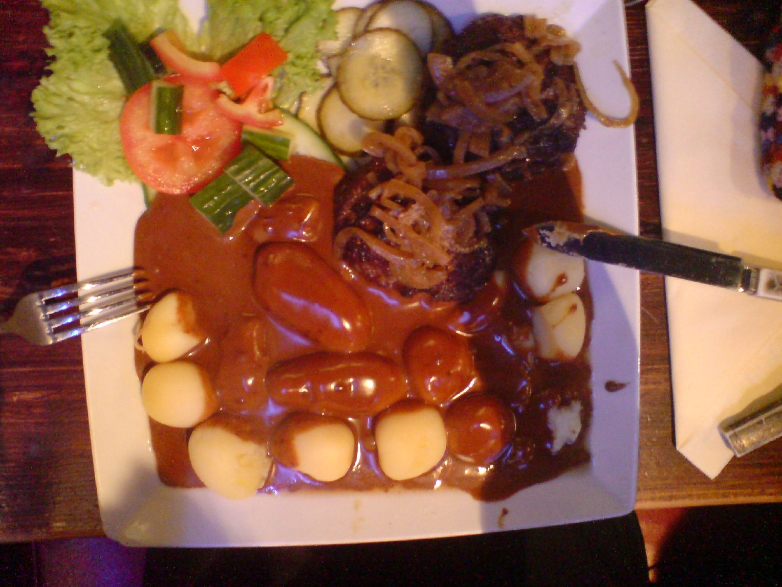 Hakkedrenge with bløde løg, from Denmark